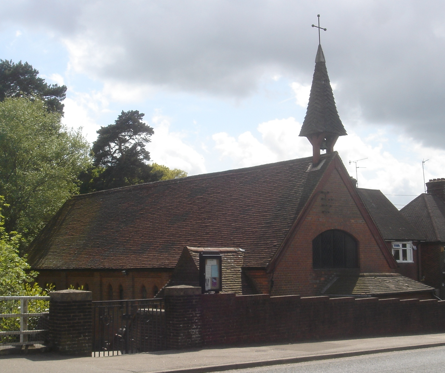 All Saints Church, Horsham Road, Handcross, District of Mid Sussex, West Sussex, England. Part of the Anglican parish of Slaugham.